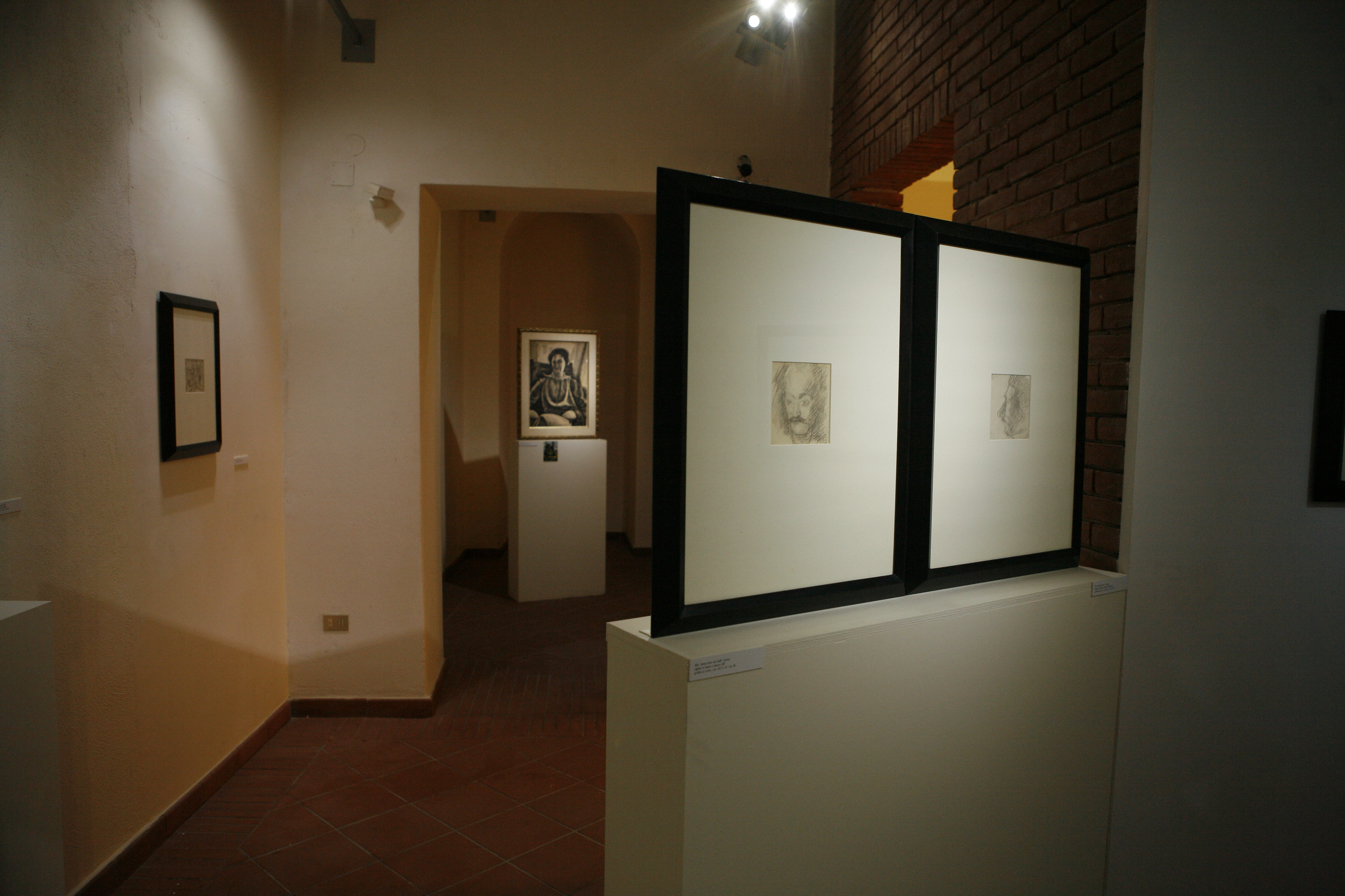 room of the museum